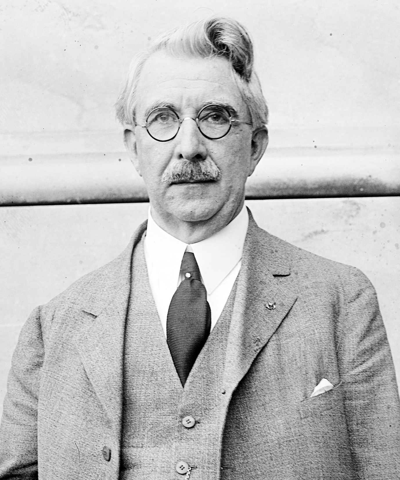 Stuart F. Reed, US Representative from West Virginia